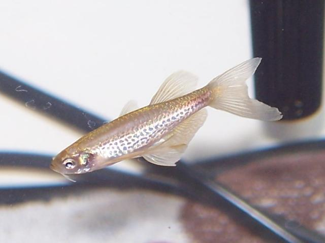 I took this myself of my own Leopard Danio (Danio rerio).